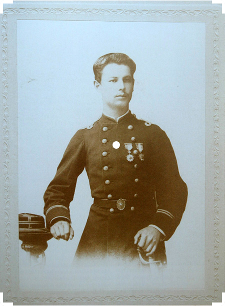 Arturo Benavides Santos, autor de "Seis anios de vacaciones"